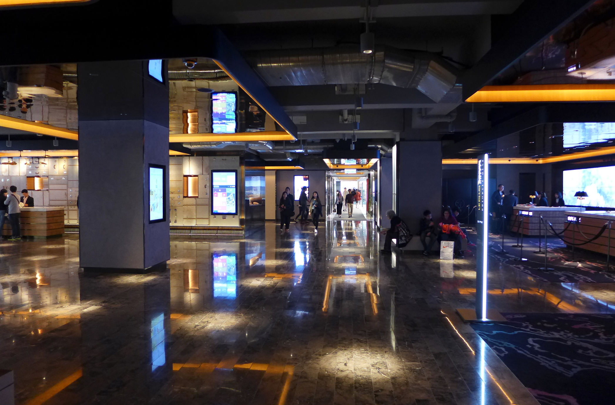 The Park Lane Hong Kong a Pullman Hotel Lobby